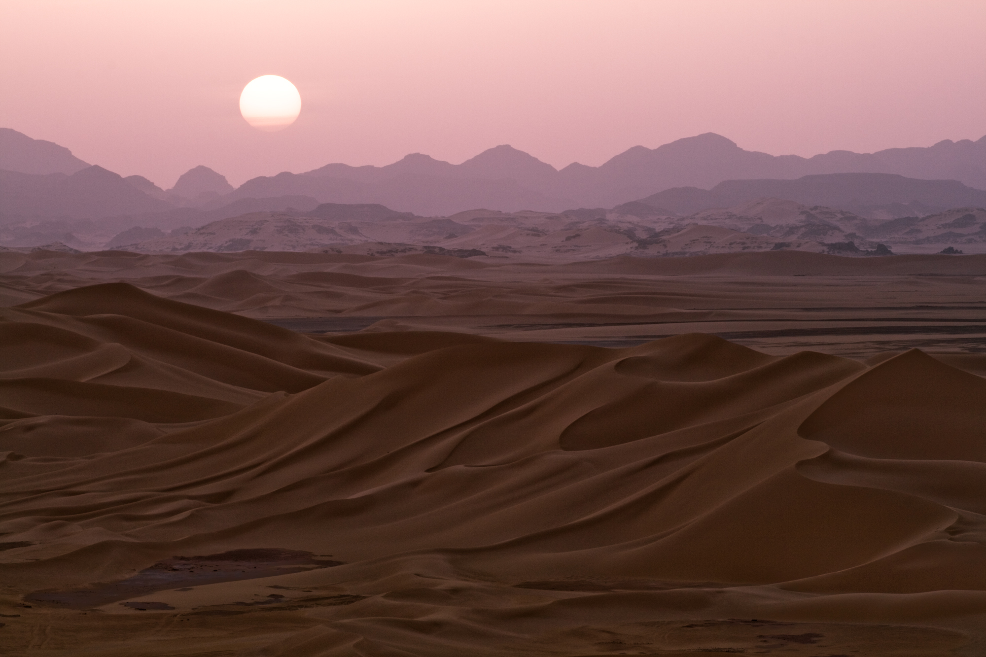 Sunset on Wan Caza sand dunes. Sahara desert region of Fezzan in Libya